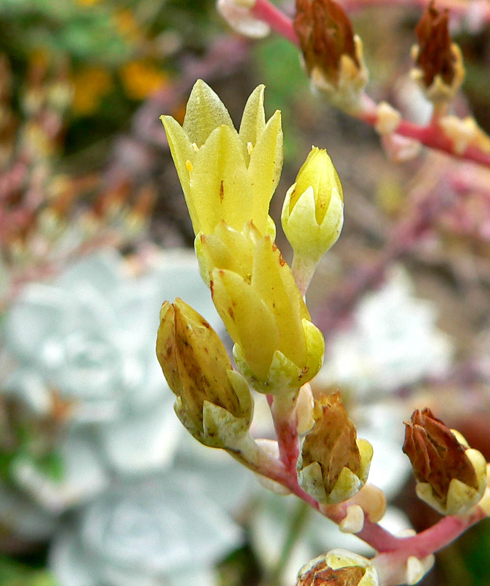 Photo of Dudleya farinosa at the Regional Parks Botanic Garden